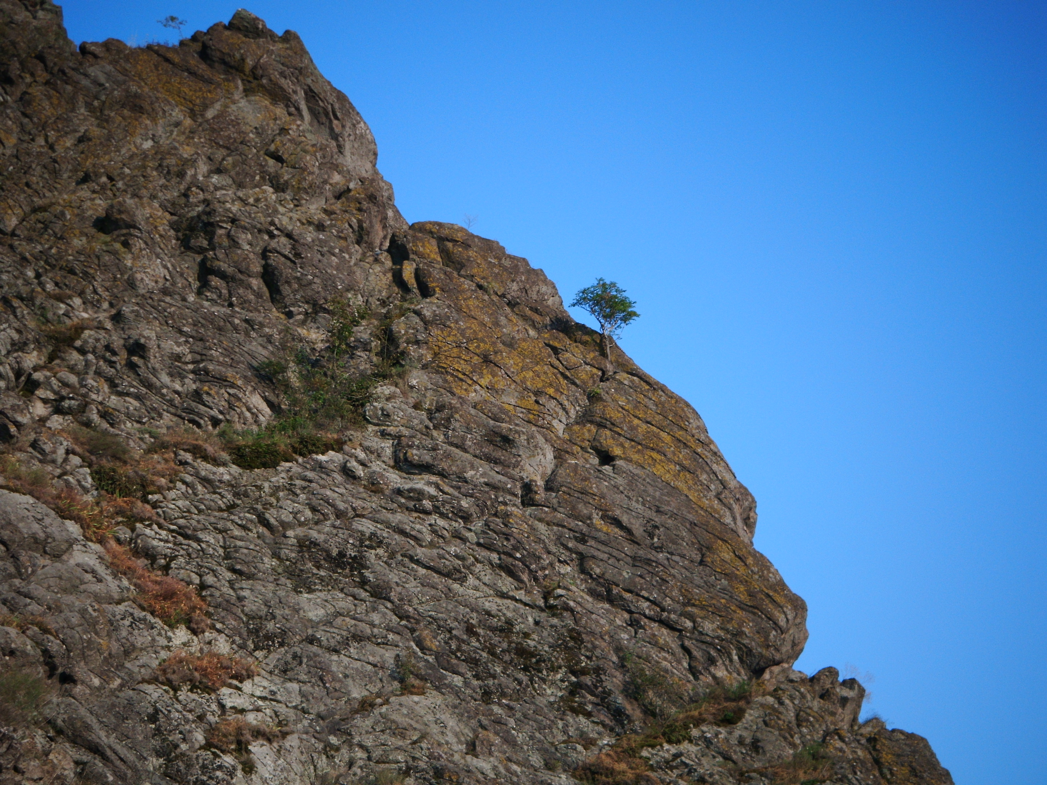 Piatra Cozie